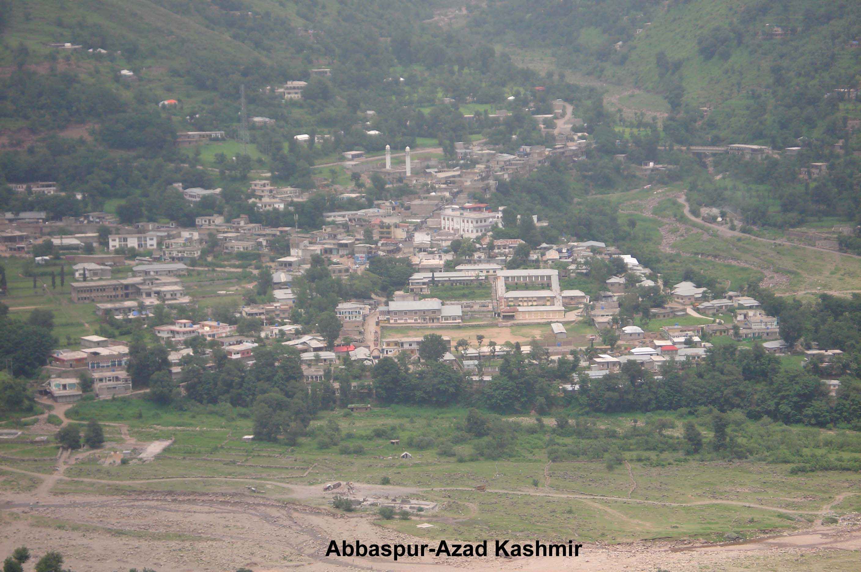 Abbaspur, a small town in district Poonch close to LOC. It got a lot of resemblance with Poonch city.